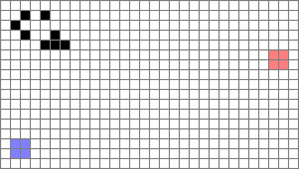 Diagram from the Game of Life